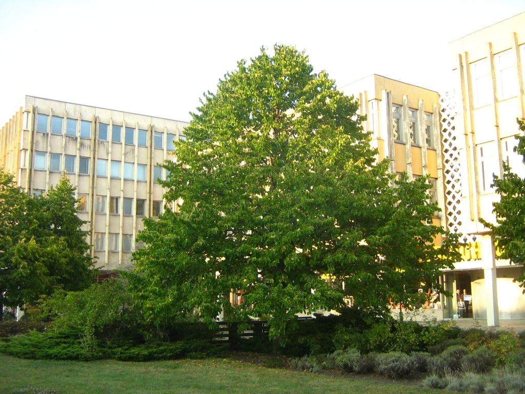 Corylus colurna